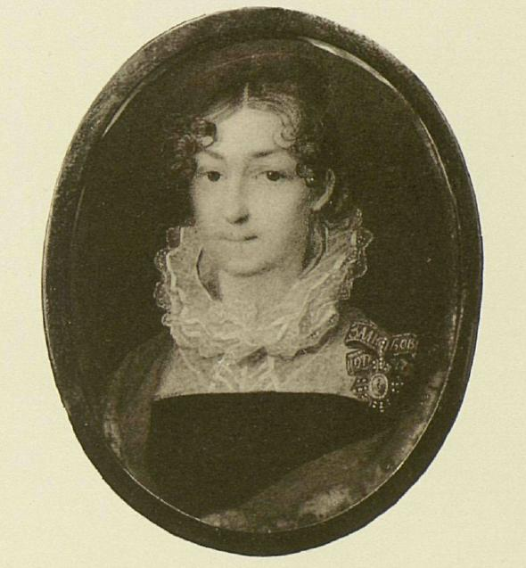 Julia Fedorovna Adlerberg (1760-1839)